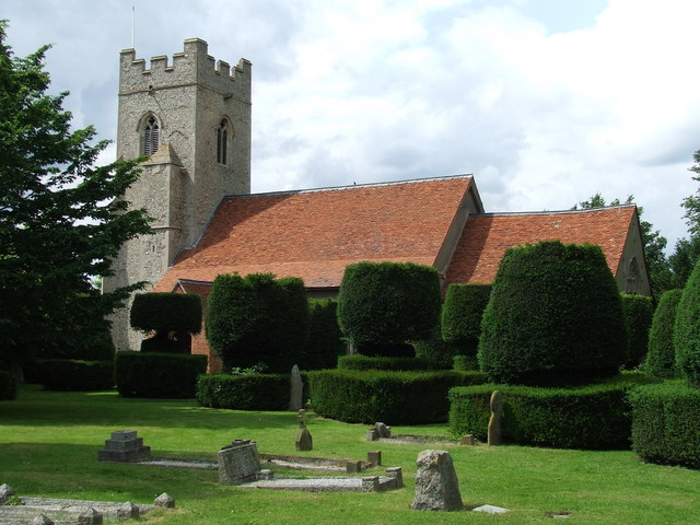 Parish Church Borley The parish church at Borley Essex